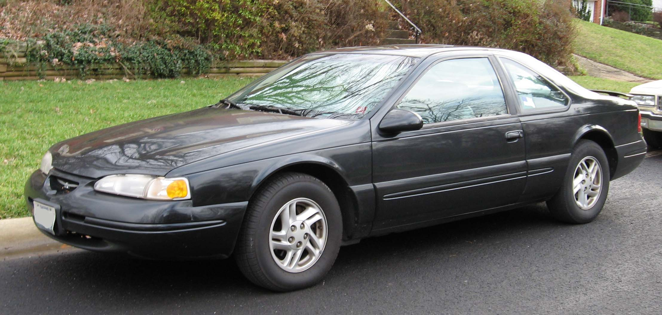 1996-1997 Ford Thunderbird photographed in USA.